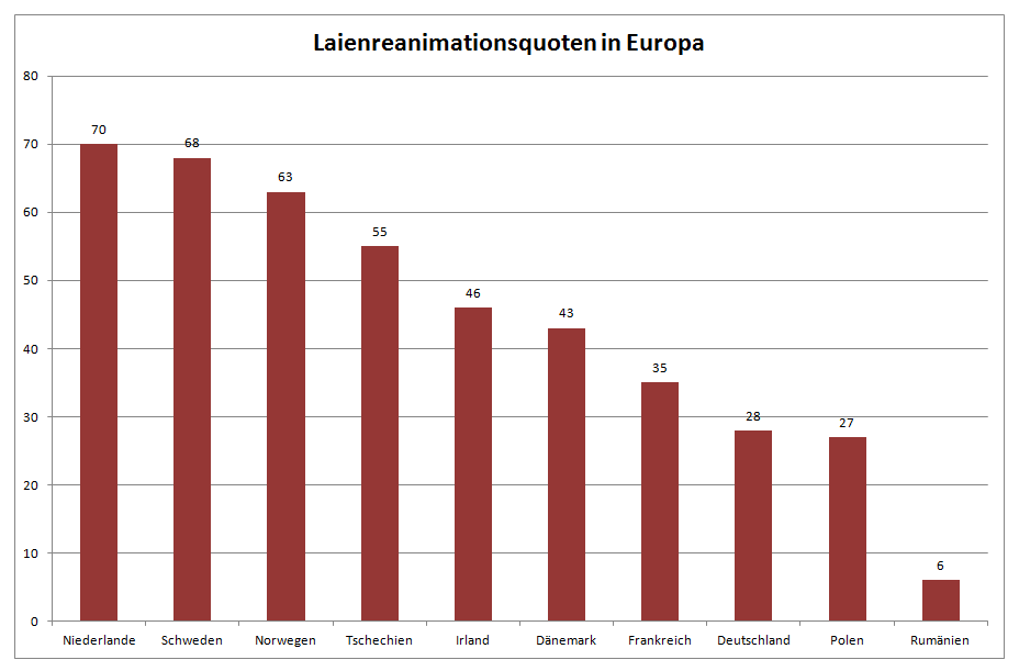 Diagram for the visualization of the reanimationquotas of non-professionals in European countries. Data from the year of 2013.